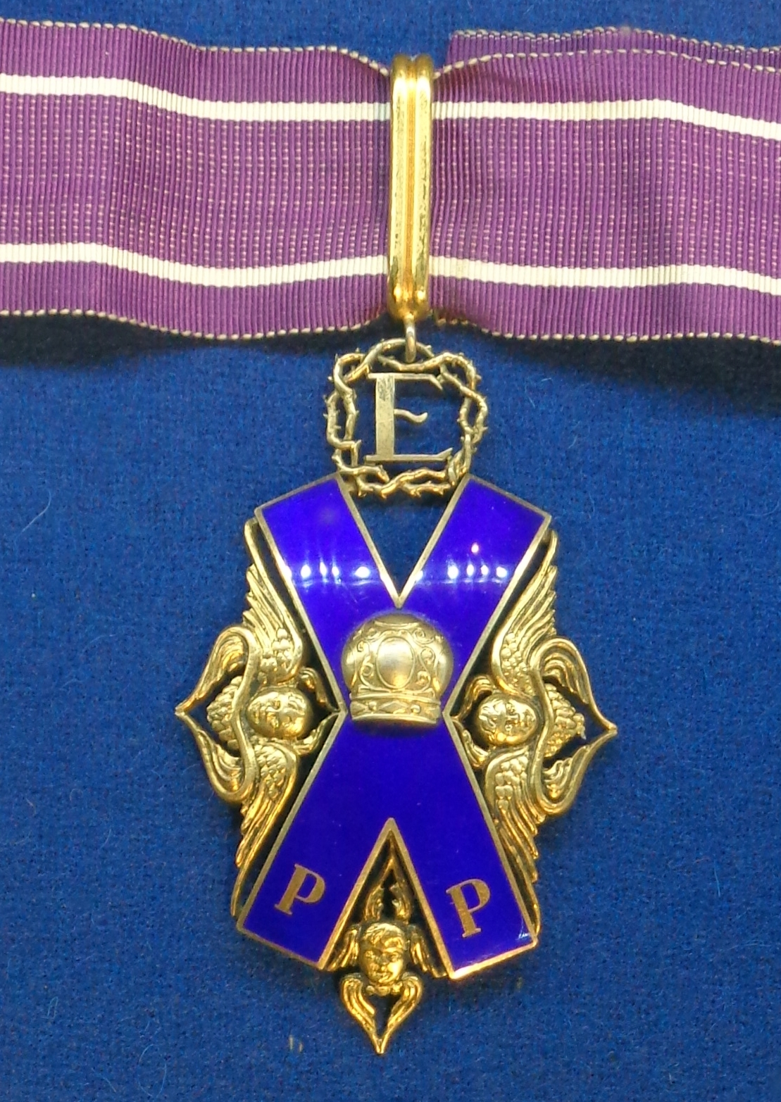 Order of Bishop Platon 2nd class, badge. Estonian Apostolic Orthodox Church. The exhibition of the Tallinn Museum of Orders of Knighthood, Estonia.